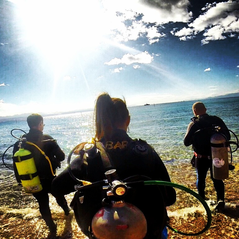 Diving in Eilat, Vacation Experience